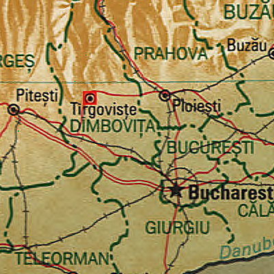 Map of Târgoviște Municipality, Romania.